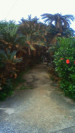 Cycas revoluta tunnel. Cycas revoluta tunnel, Tokunoshima.